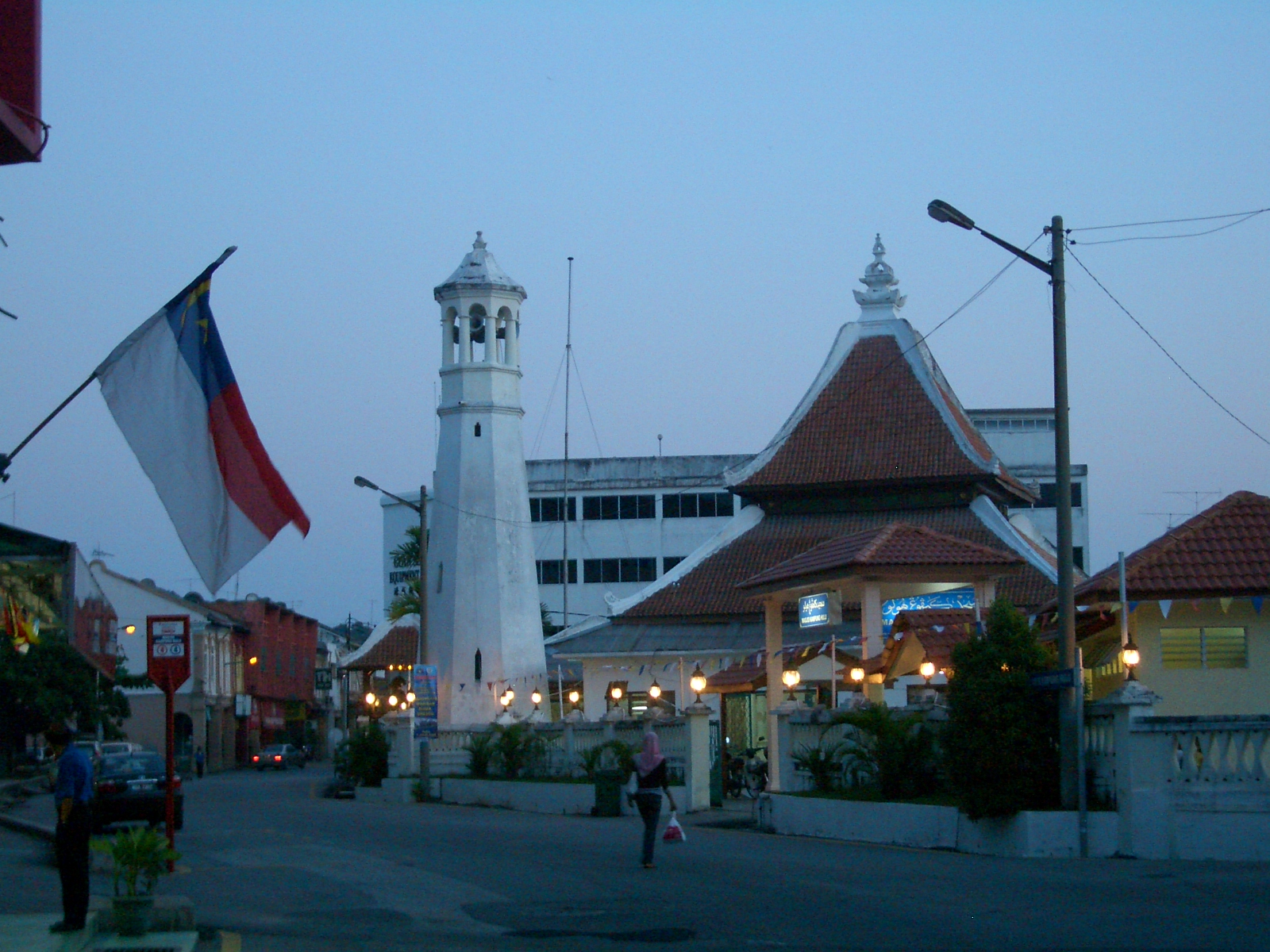 Masjid Kampung Hulu, Malacca.